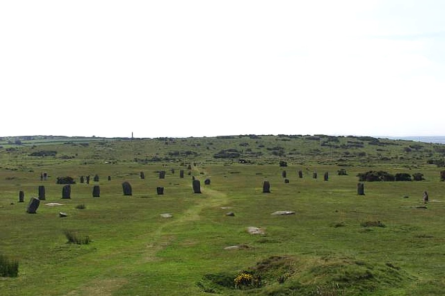 The Hurlers - Stone Circle - Liskeard, Cornwall, UK